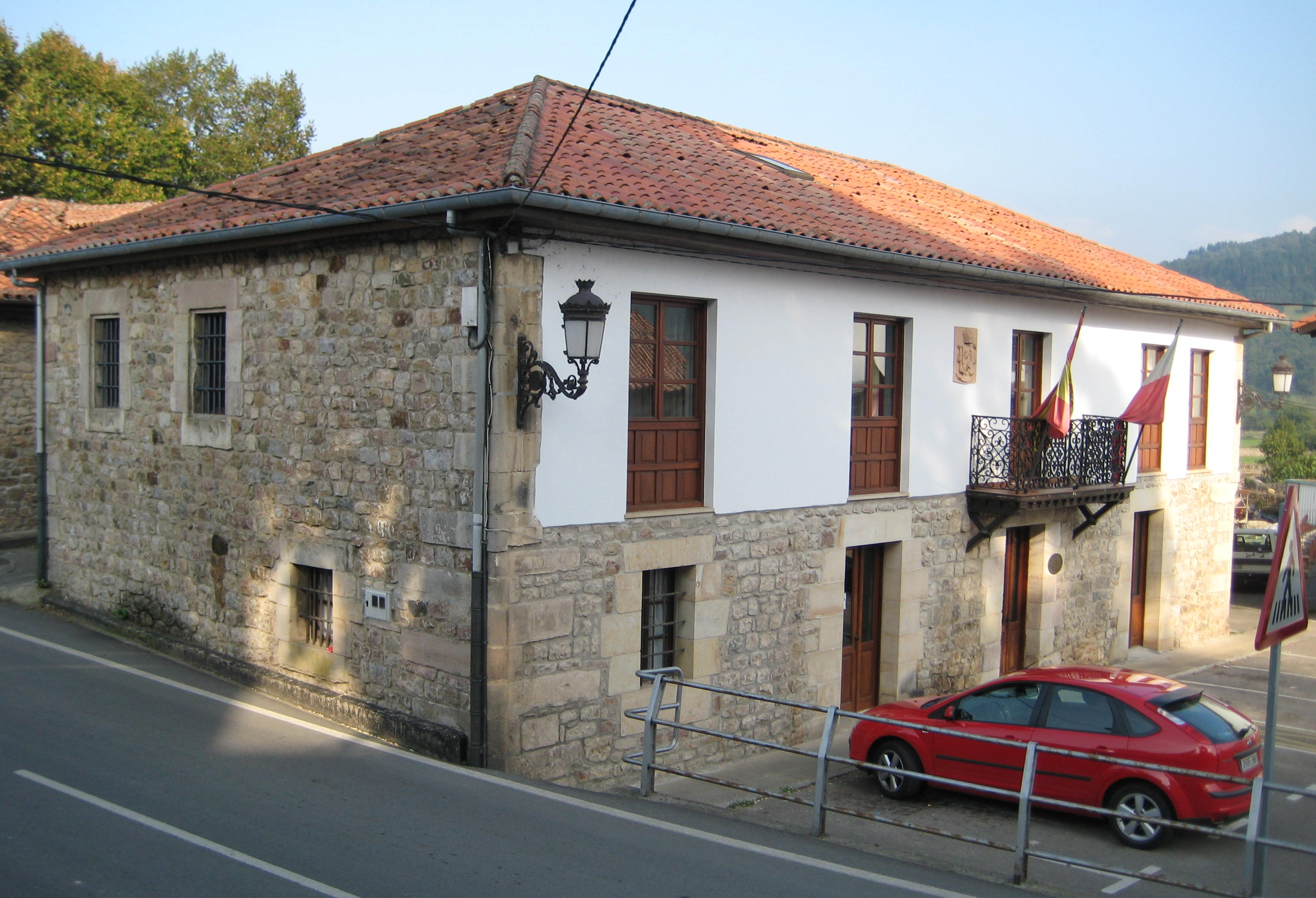 Town hall of Cabuérniga, in the village of Valle, Cabuérniga, Cantabria, Spain.